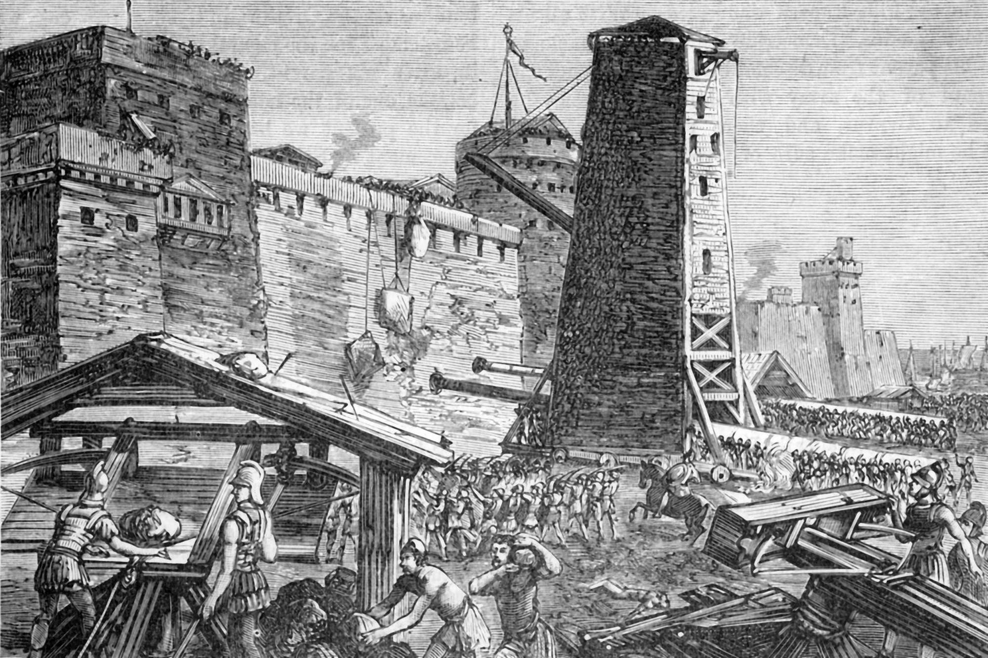 Attack of Rhodes